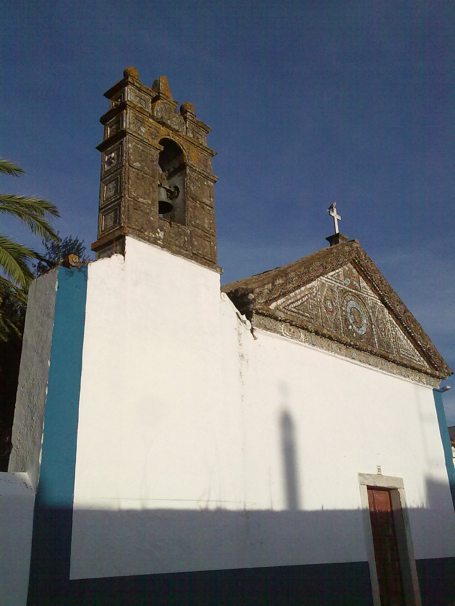 Façade of the "Capela das conchas" chapel, Alcáçovas, Portugal.